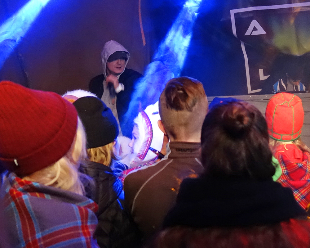 The Sami rapper Kitok (Magnus Ekelund) on show on Jokkmokk's winter market 3 February 2017.